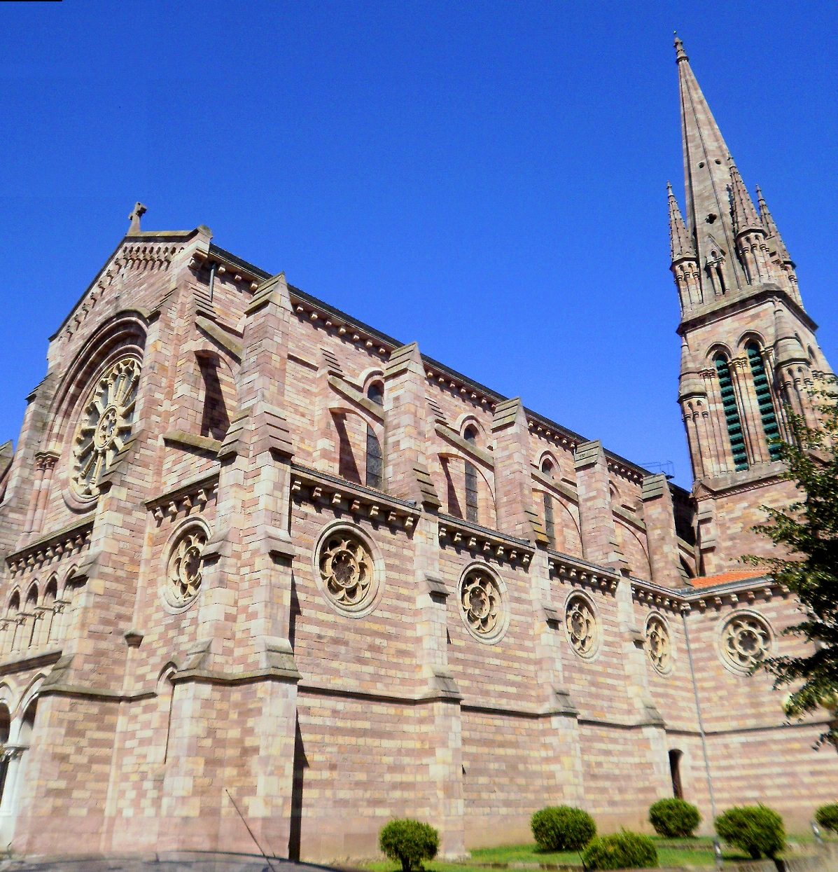 Iglesia de Nuestra Señora de la Atención, Torrelavega (Cantabria, España)